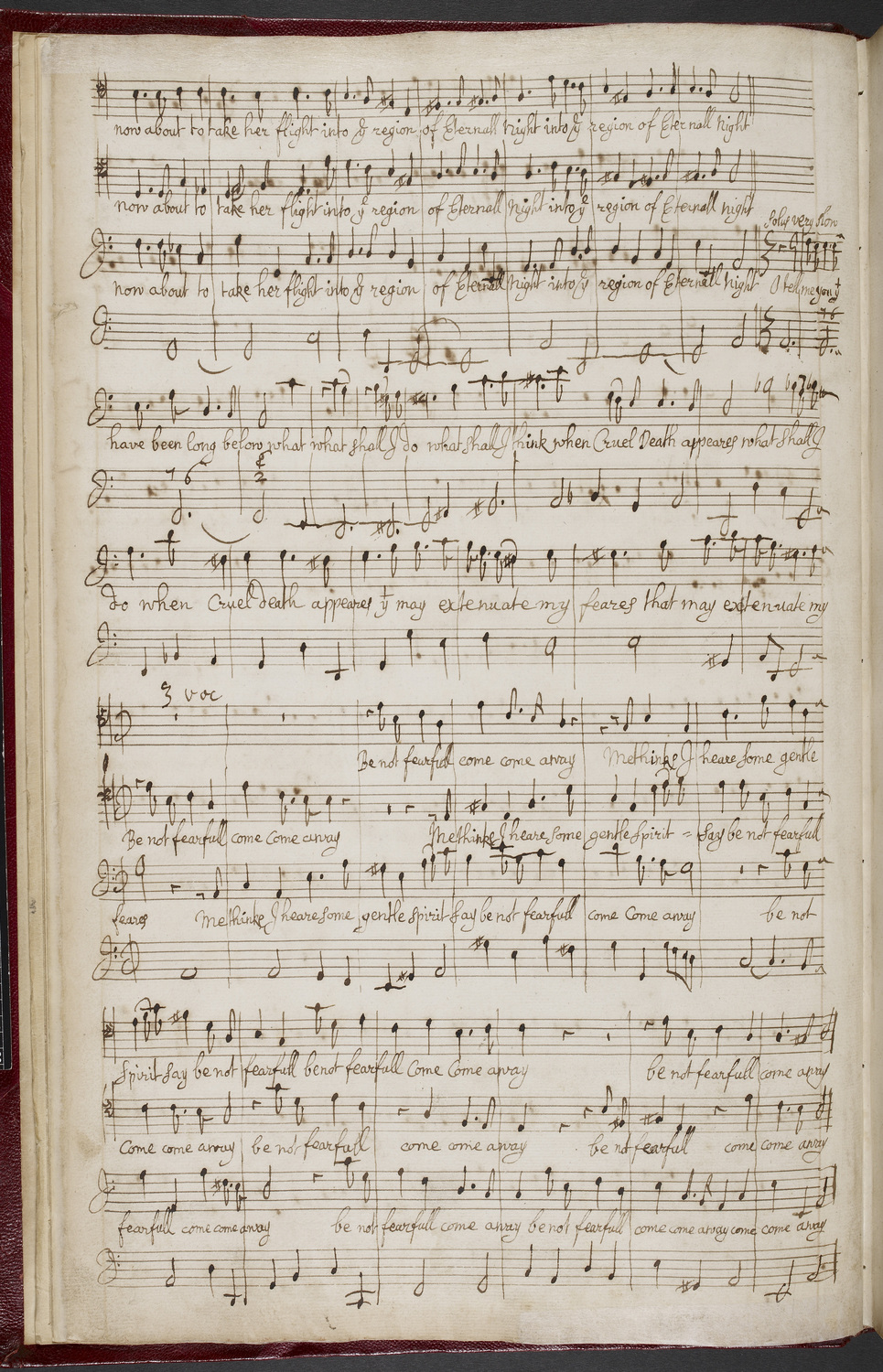 When on my sick bed I languish. In the composer's hand.